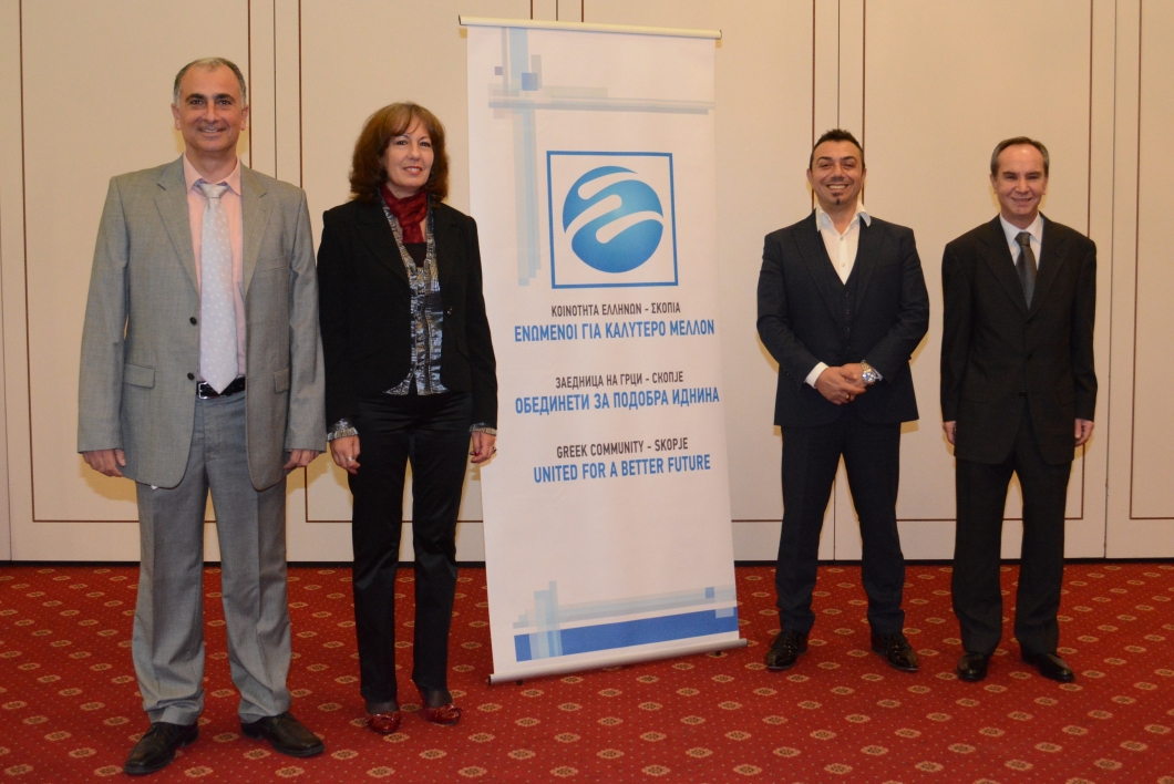 Members of the new Greek community of Skopje, November 2015